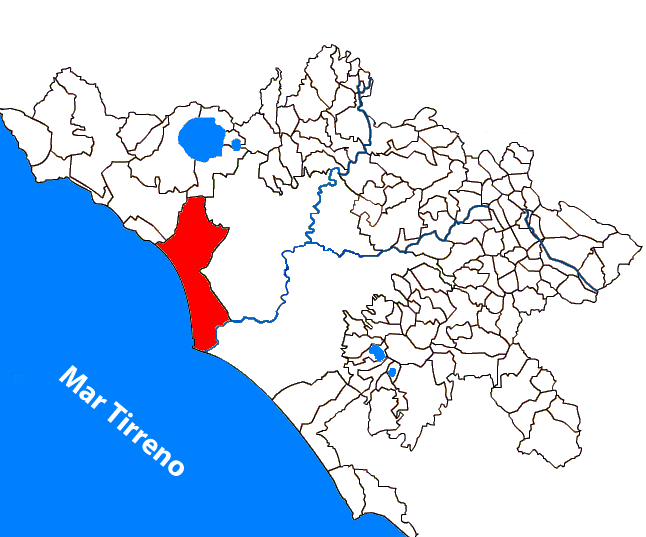 Fiumicino in the province of Rome